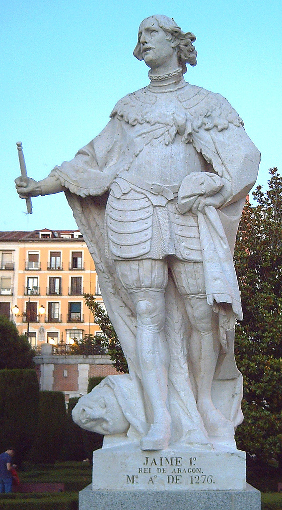 Statue of James I of Aragon, the Conqueror (1208–1276), at the Sabatini Gardens in Madrid (Spain). Sculpted in white stone by Juan de León between 1750 and 1753.